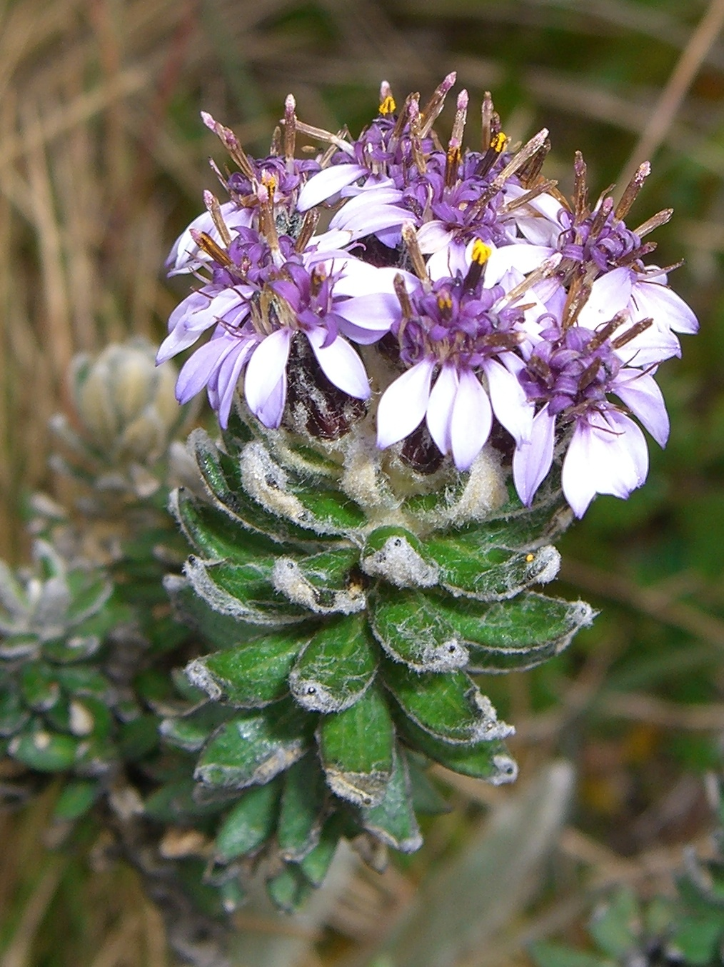 Diplostephium phylicoides. Location: NPP Chingaza